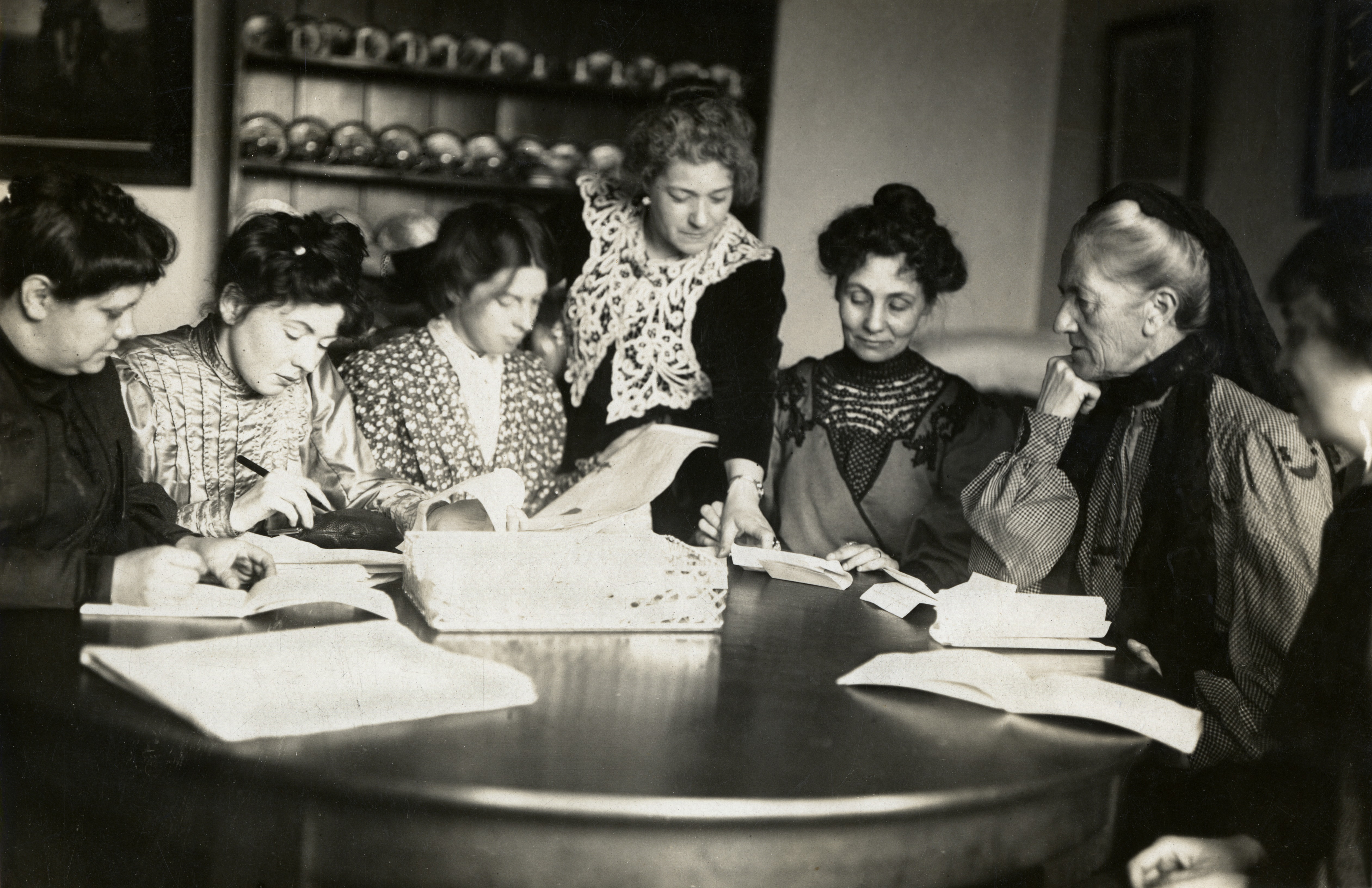 7JCC/O/02/109 Photograph, printed, paper, monochrome, Women's Social and Political Union, another Flora Drummond, Christabel Pankhurst, Annie Kenney, Emmeline Pankhurst, Charlotte Despard with two others, working round a kitchen table; printed inscription on reverse 'Barratt's Photo Press Agency, 8 Salisbury Ct, Fleet St, EC'